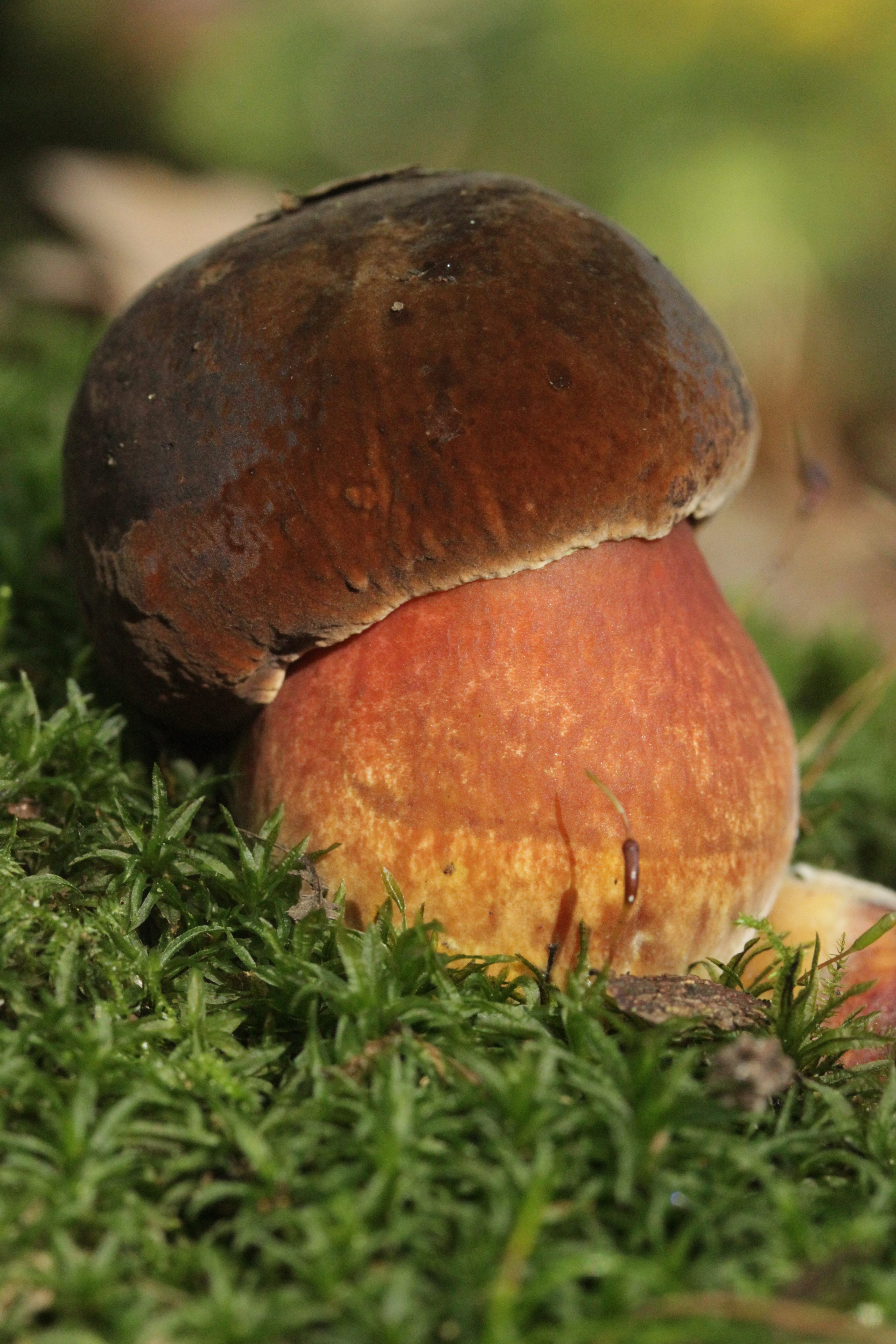 Dotted Stem Bolete - Neoboletus luridiformis